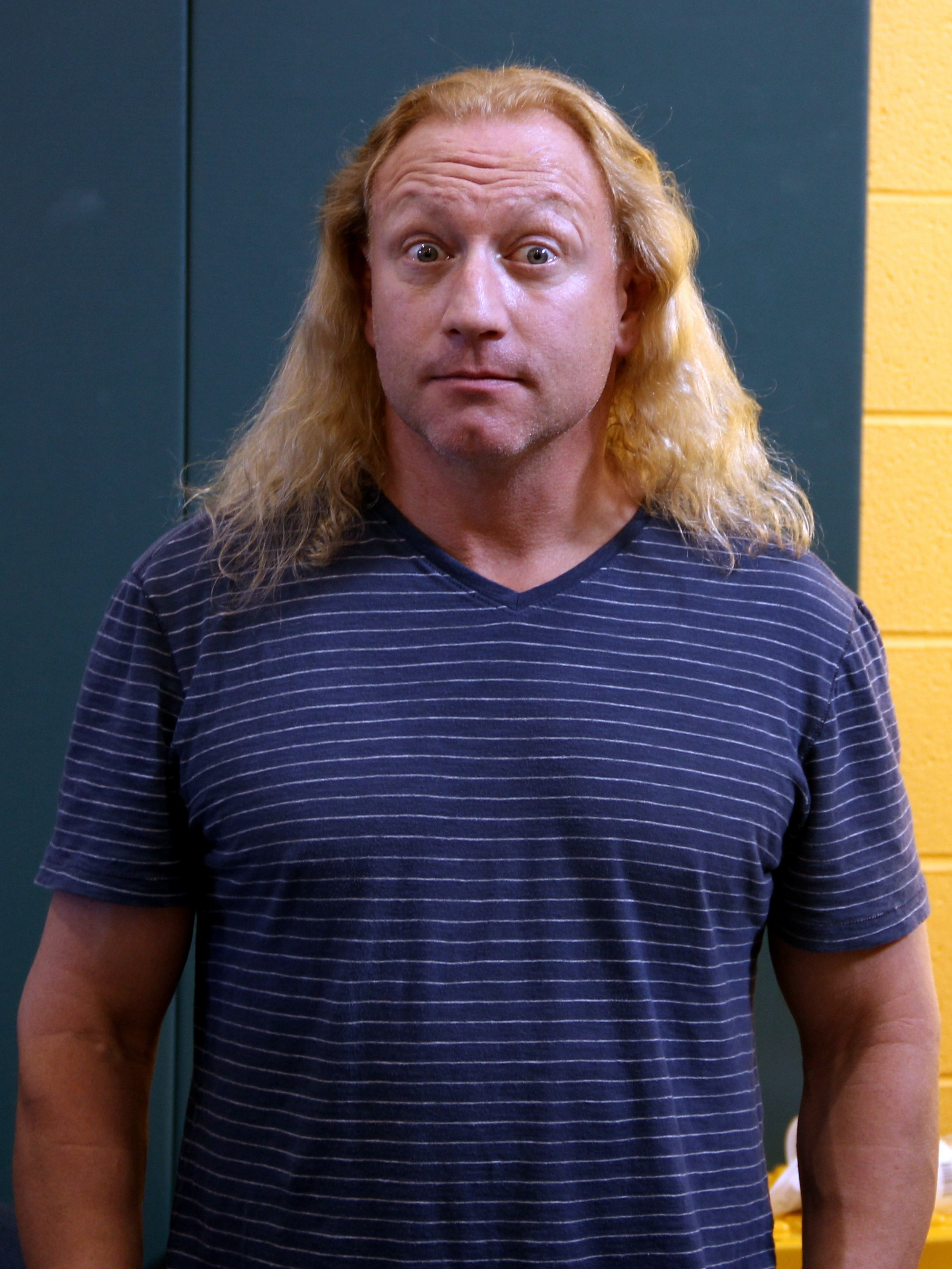 Professional wrestler Jerry Lynn at Chikara King of Trios 2012 Fan Conclave.